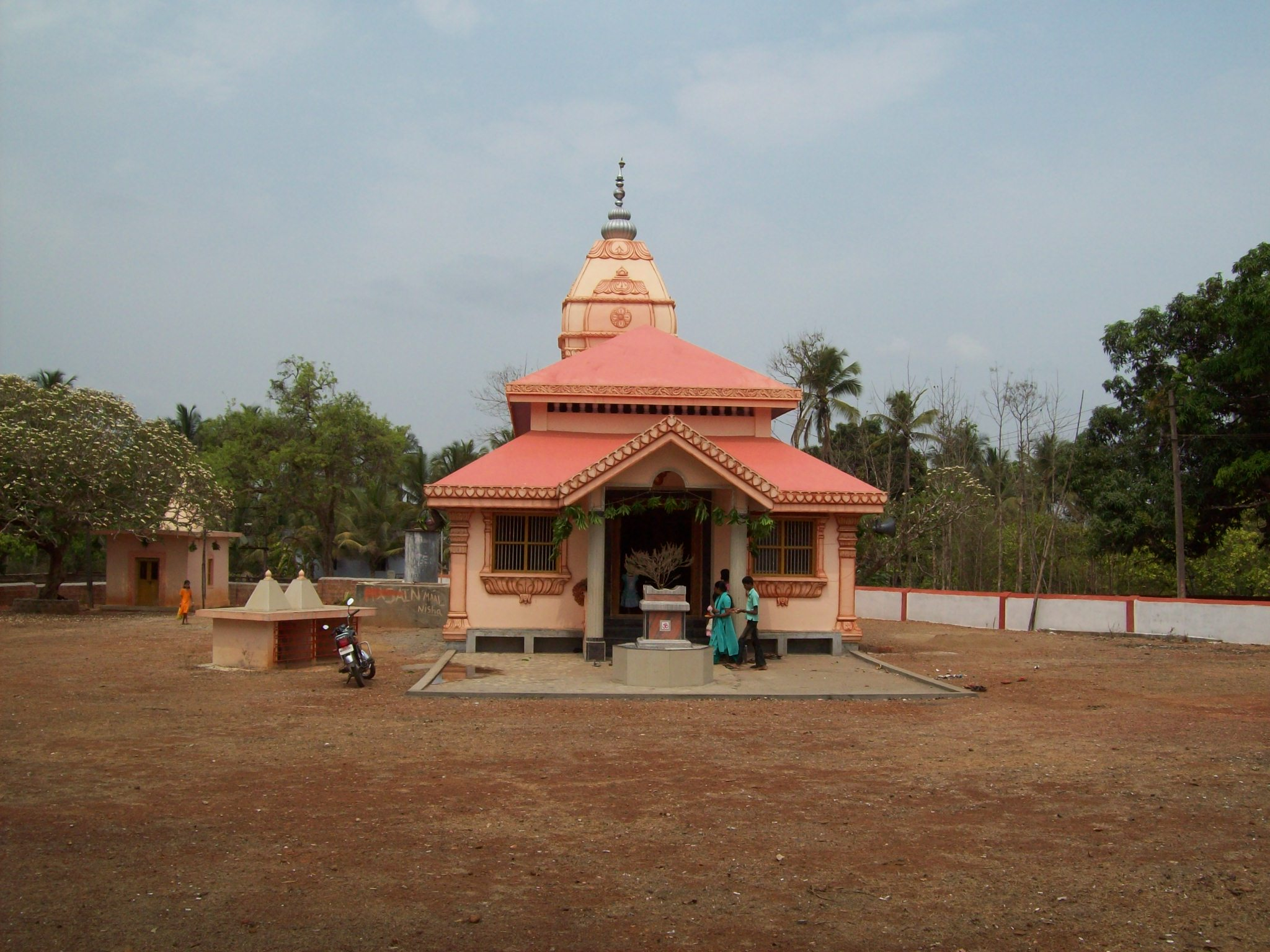 Shree Siddheshwar Temple, Karwar Balni